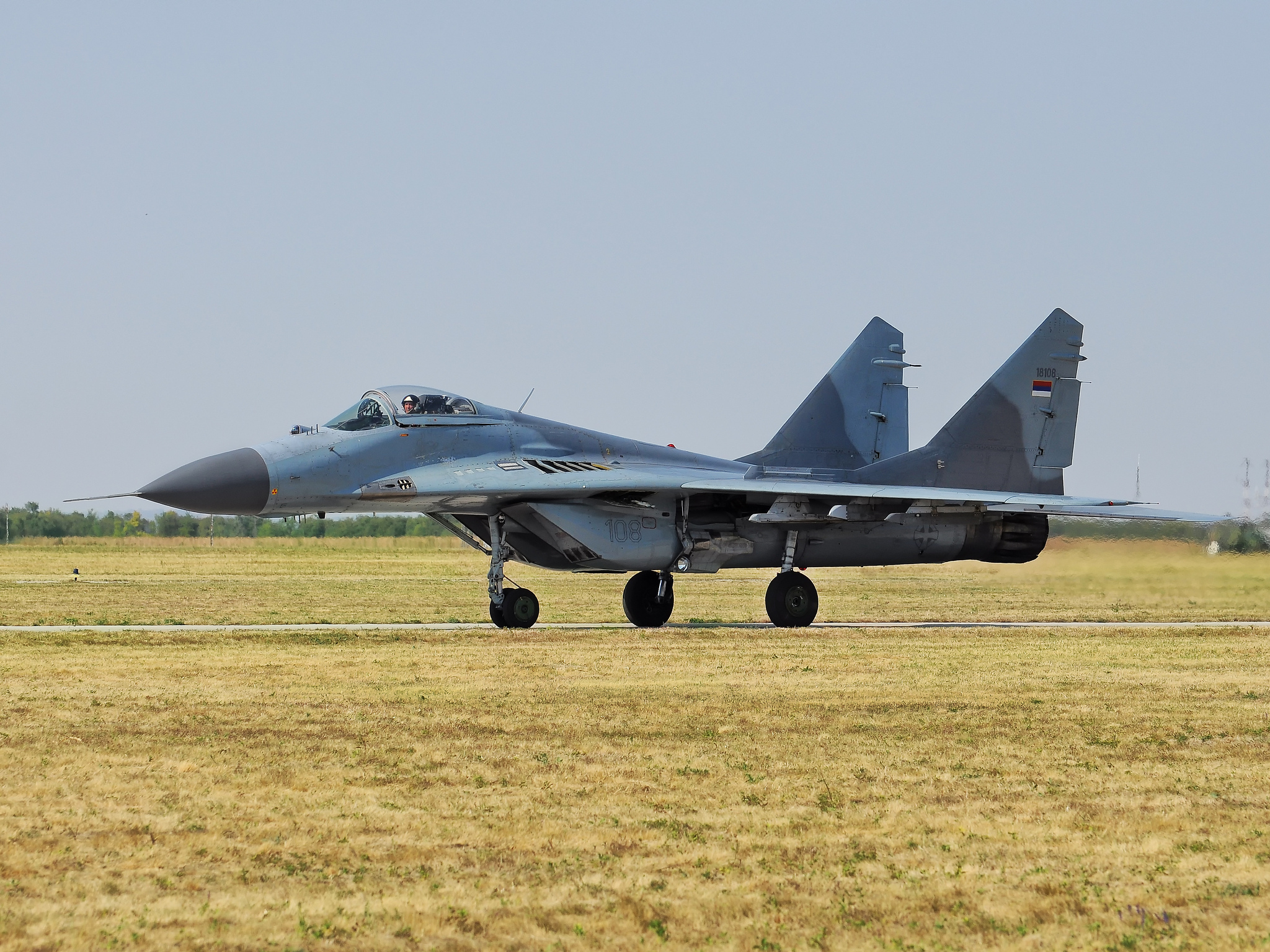 Serbian Air Force Mikoyan-Gurevich MiG-29B (9-12B).